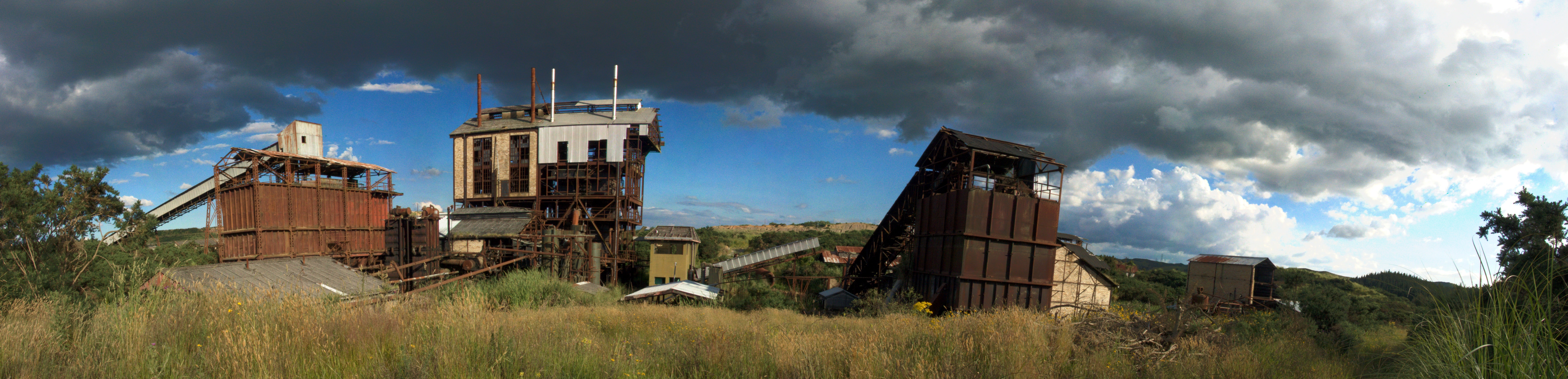 A panoramic photograph of Waikato (Rotowaro) Carbonisation Plant in New Zealand. The building with the smokestacks is the unique Lurgi Retort Building. NZHPT Category I; registration number 7013.